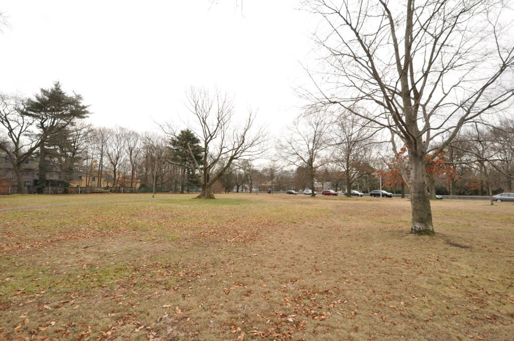 View of Lowell Park in Cambridge, MA. The Elmwood estate (yellow buildings) is visible in distance on the left, and Fresh Pond Parkway is on the far right.